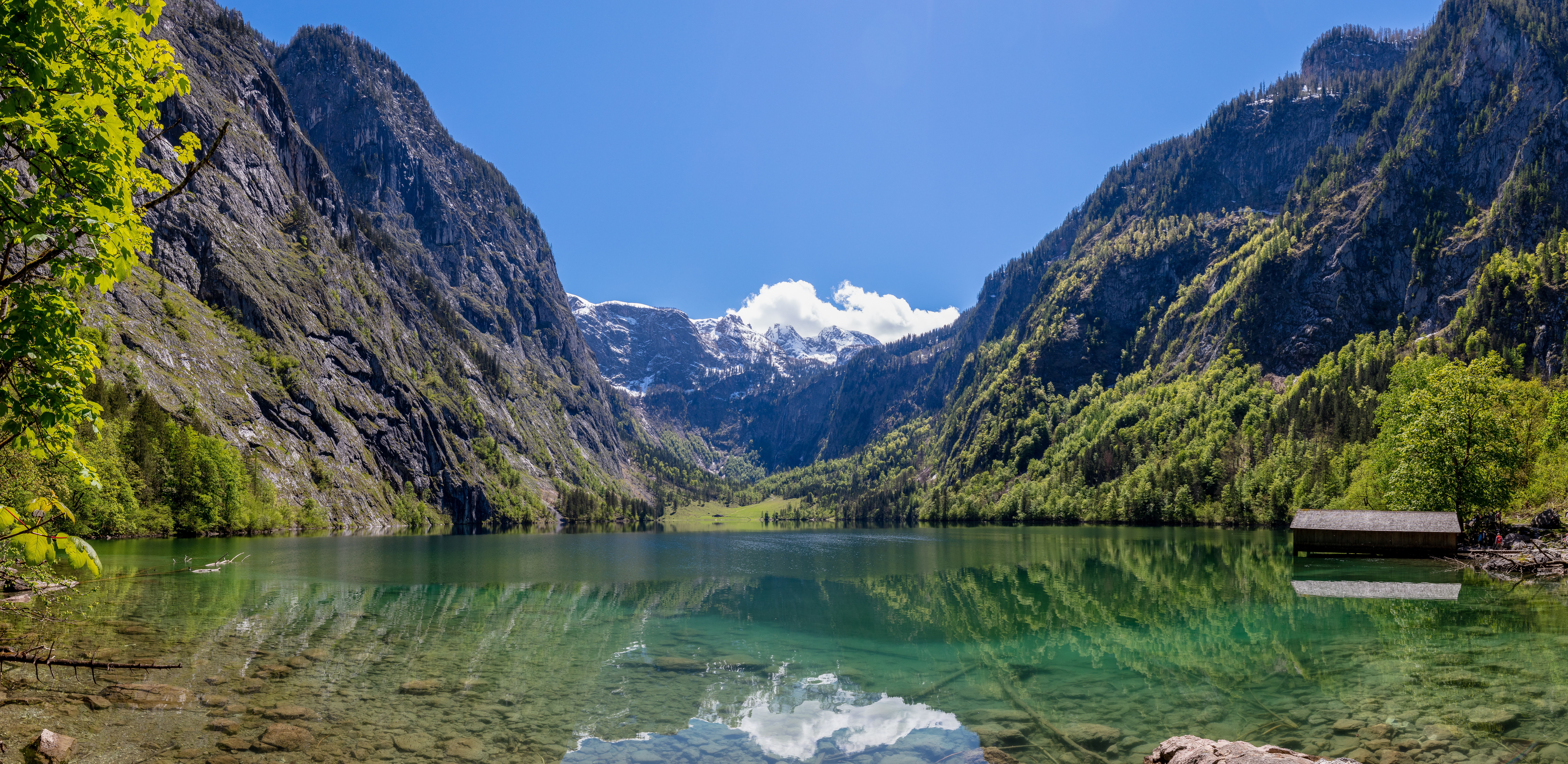 Obersee, Germany